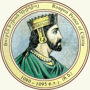 Source: Hayastan Page 6